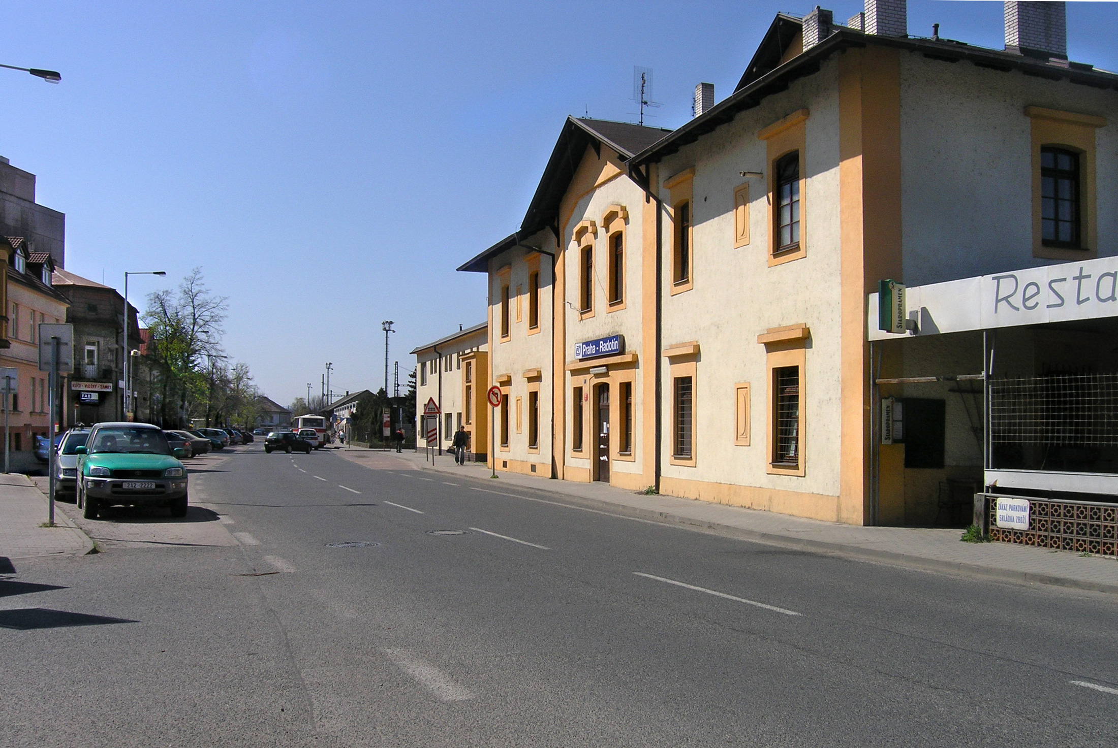 Vrážská street and railway station at Radotín, Prague